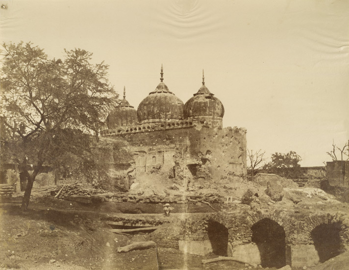 Photograph of Qudsia Bagh Masjid in Delhi from 'Murray Collection: Views in Delhi, Cawnpore, Allahabad and Benares' taken by Dr. John Murray in 1858 after the Uprising of 1857. Qudsia Begum, aslo known as Udhman Bai, was a wife of Mughal Emperor Muhammad Shah (r. 1719-48) and the mother of Emperor Ahmad Shah (r.1748-54) and was responsible for the construction of several mosques and shrines in Delhi. The Qudsia Bagh Masjid, c.1748, was built with the Qudsia garden complex which also included a residence (which has been destroyed) overlooking the Jumna river in north Delhi.